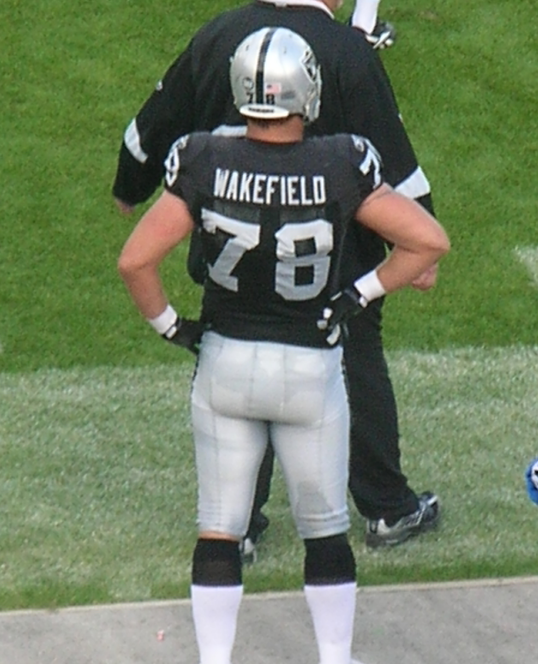 Oakland Raiders lineman Fred Wakefield at a home game against the Atlanta Falcons. The Falcons won 24-0.